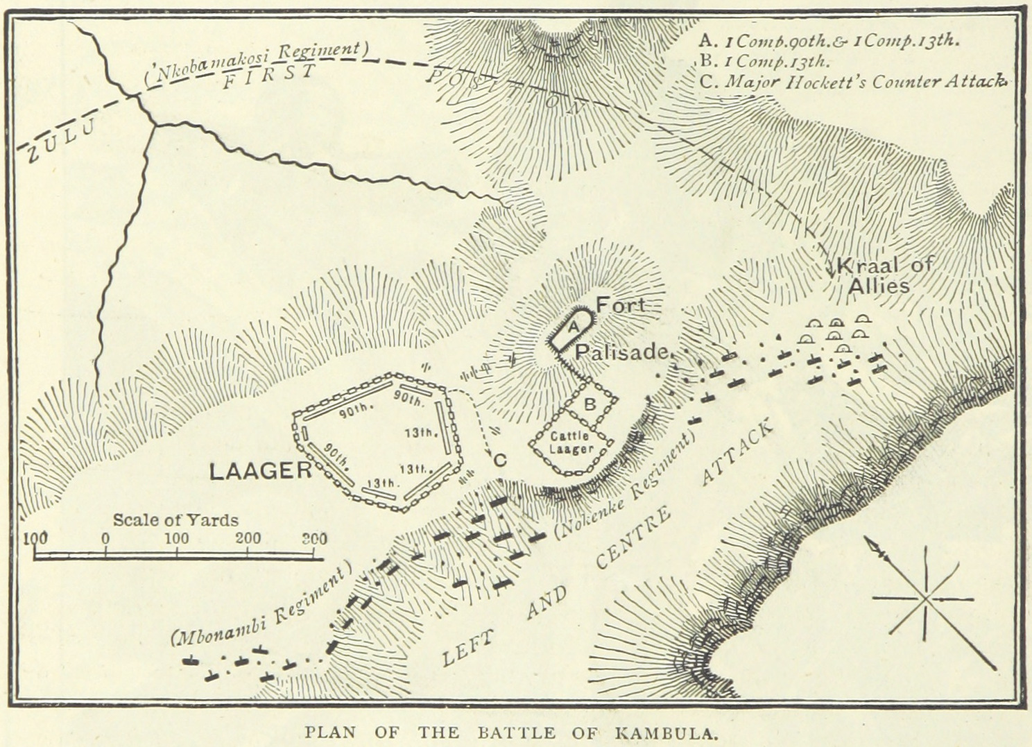 An English map of the Battle of Kambula in the Anglo-Zulu war.